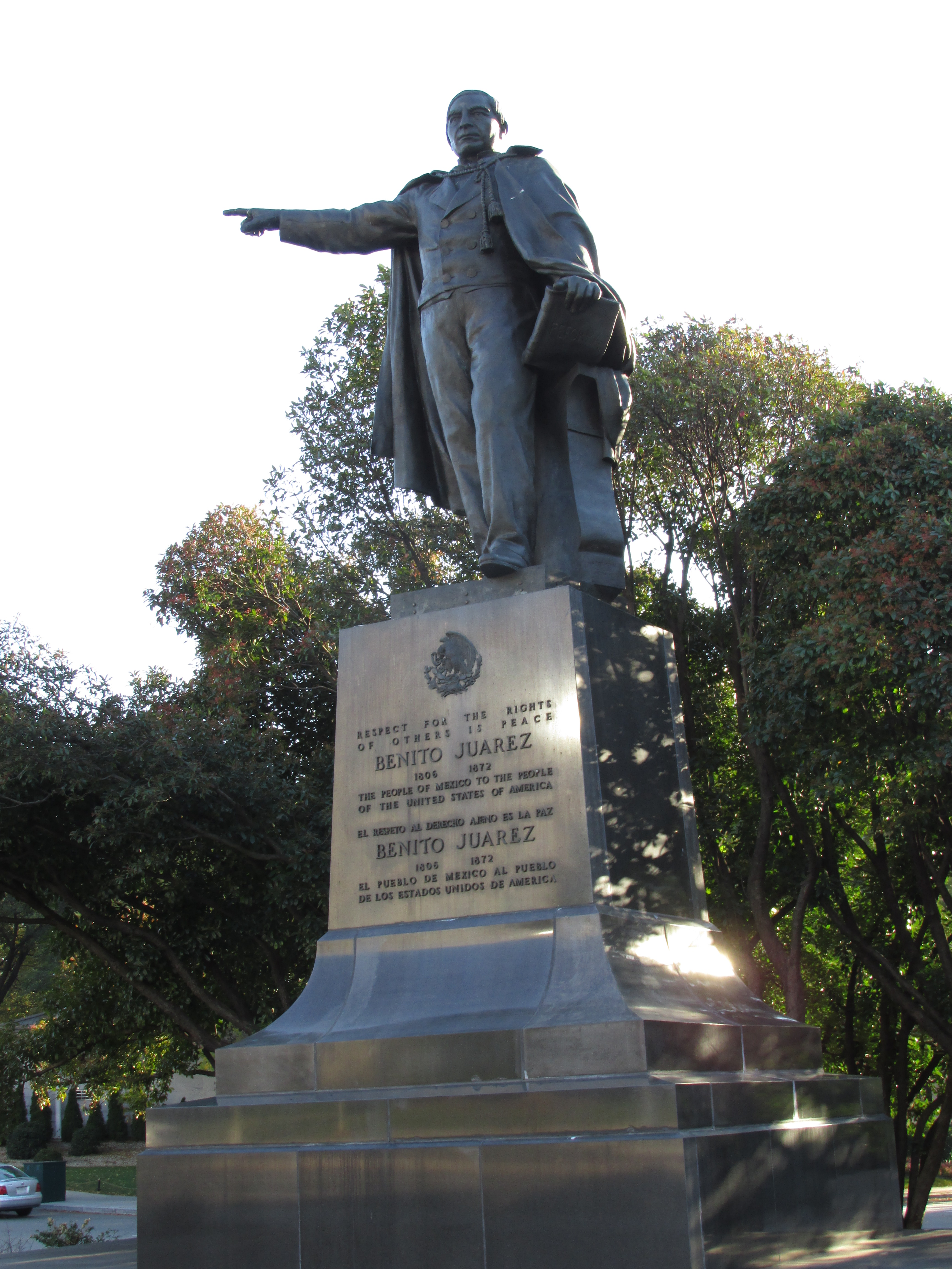 The memorial statue to Benito Pablo Juárez García, the five-time Mexican President who fought against the French occupation of Mexico and overthrew the Second Mexican Empire.